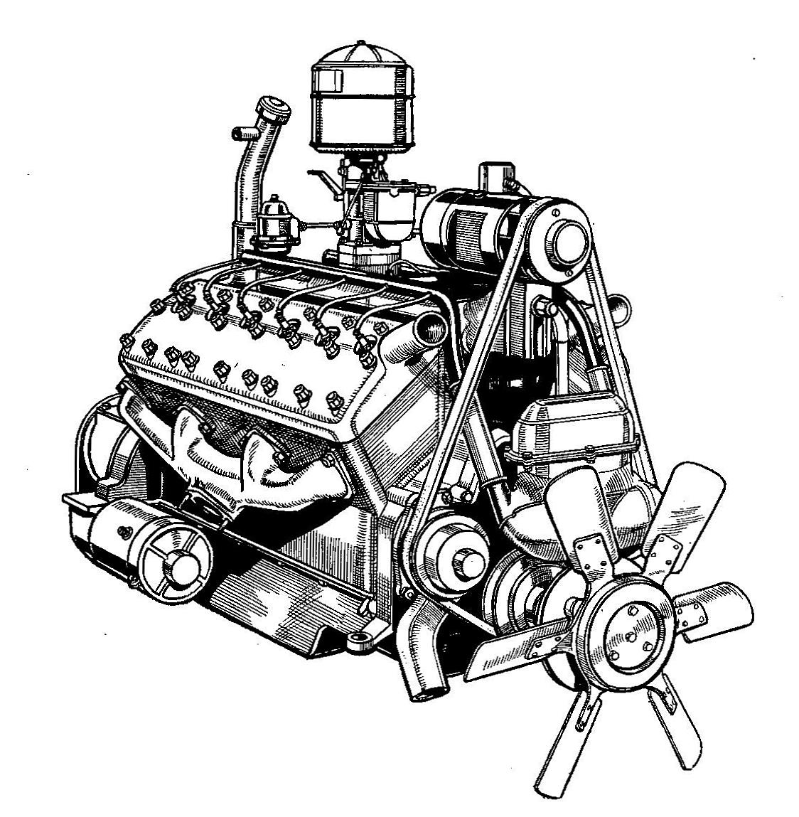 Lincoln Zephyr V12 engine (Autocar Handbook, 13th ed, 1935).jpg